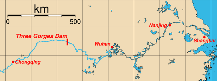 Map of the location of the Three Gorges Dam, Sandouping, Yichang, HubeiHubei Province, China and major cities along the Yangtze River. This map was generated using the Generic Mapping Tools (GMT). The coordinates (longitude, latitude) of the cities used are: Chongqing, 106.566667 29.558333 Three Gorges Dam, 111.003333 30.823056 Wuhan, 114.2790 30.5725 Nanjing, 118.7833 32.0500 Shanghai, 121.4730 31.2479